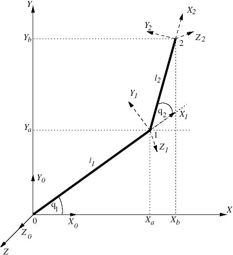 Example of Denavit-Hartenberg Notation (robotics) usage. Self made.